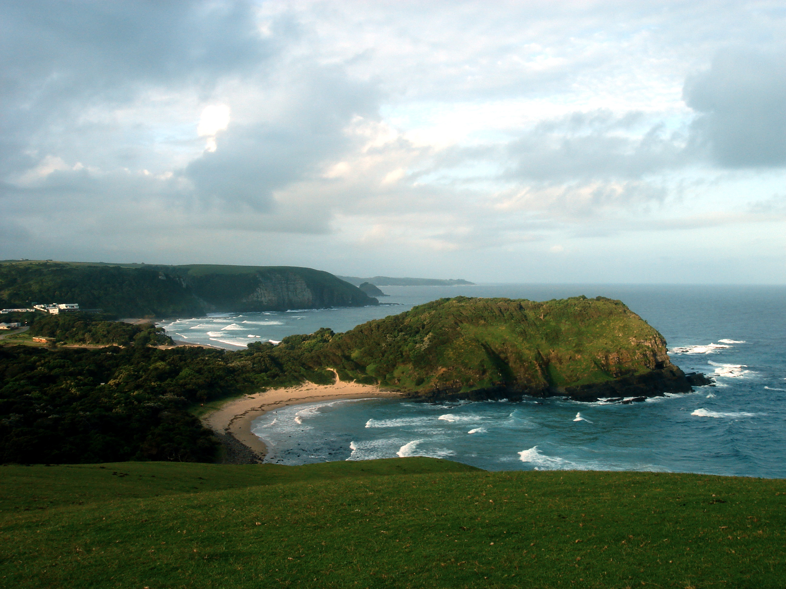 A photograph of Coffee Bay, Eastern Cape Province, South Africa Sony Cyber-shot DSC-T7